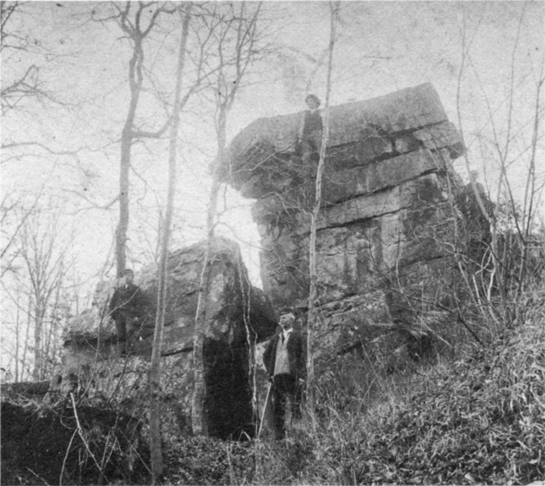 Photograph showing the "Ulrichstein" in Nürtingen-Hardt, Baden-Württemberg, Germany, around 1900